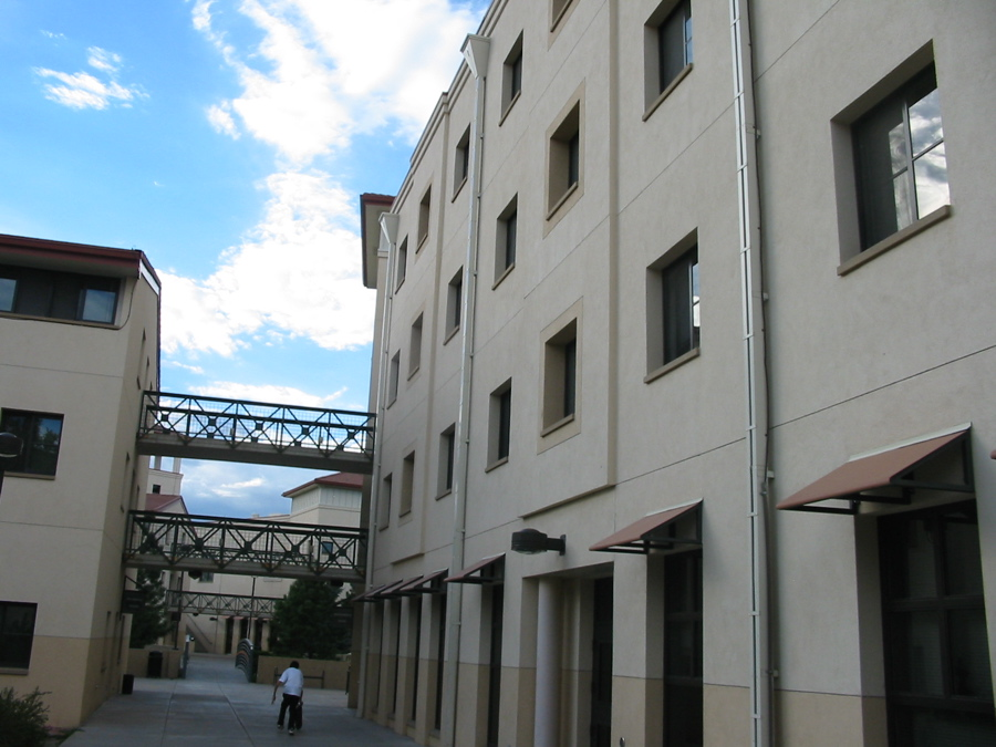 UCCS Summit Village, resident housing.